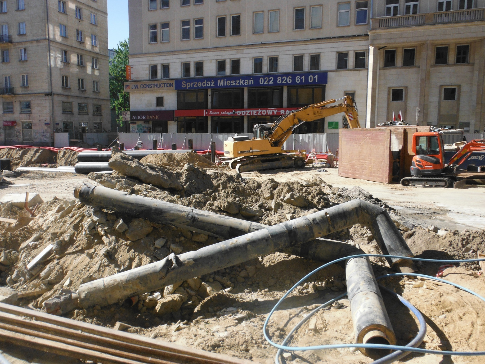 Świętokrzyska metro station (under construction) in Warsaw (3rd of August 2013).